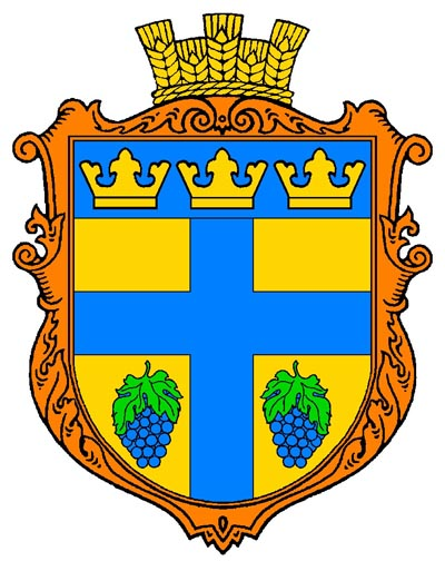 Coats of arms of Zmiyivka Village